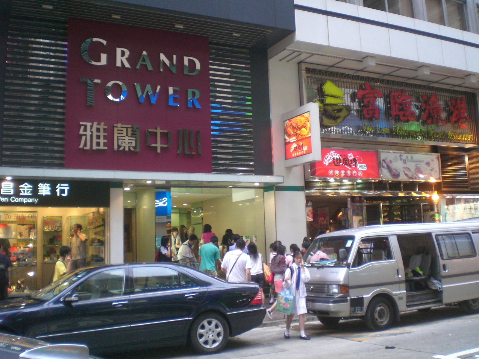 旺角 雅蘭中心 富臨集團 山東街